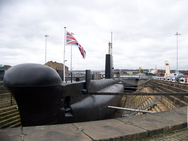 HM Submarine Ocelot at Chatham Dockyard